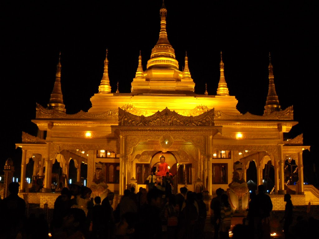 Buddhist Monastary